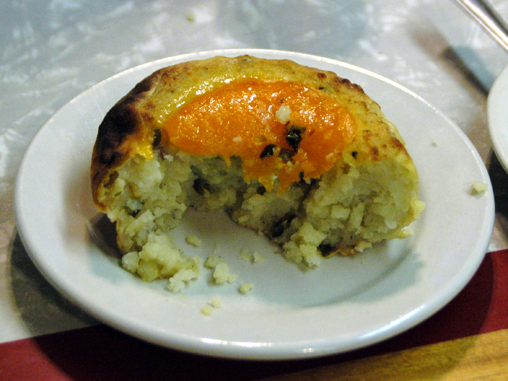 Knish from Shimmel, lower east side, Manhattan, NYC